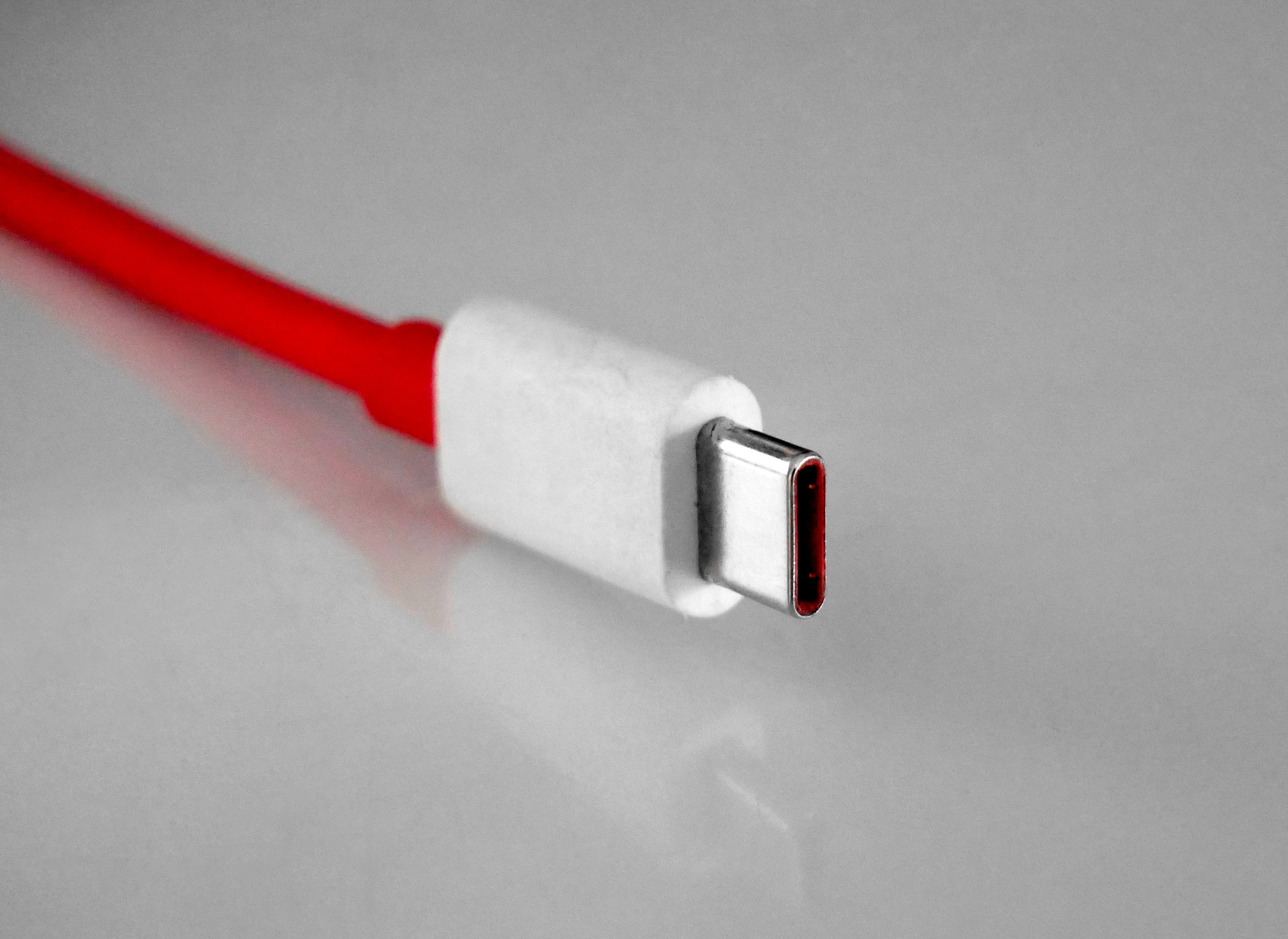 USB Type-C plug.